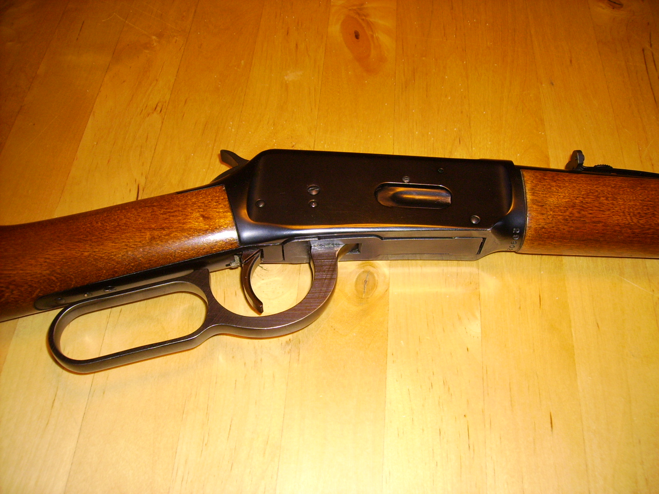 Winchester 94 Carbine from late sixties. Cal. 30-30 Unknown